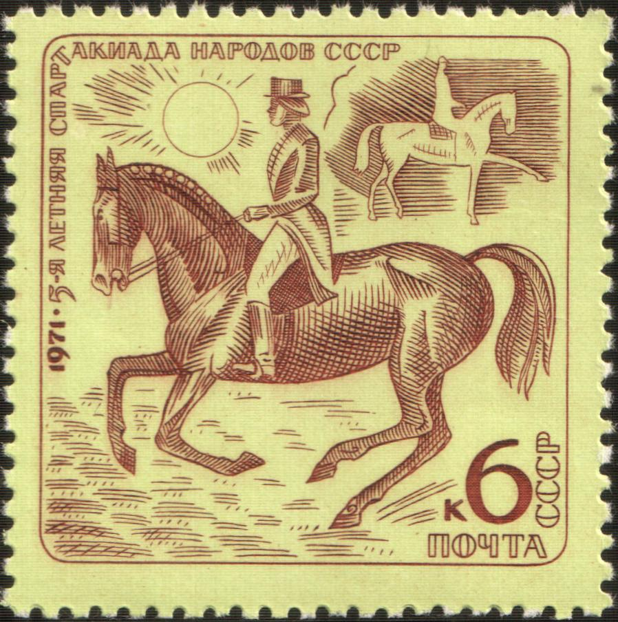 USSR stampː Equestrianism. Dressage. Seriesː 5th Summer Spartakiad of the Peoples of the USSR